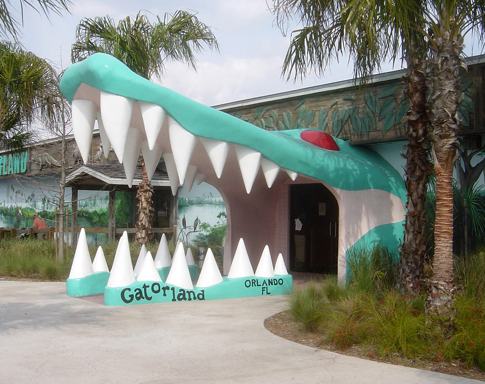 Entrance to Gatorland, Florida. Photo taken by Bobak Ha'Eri. February 23, 2006.